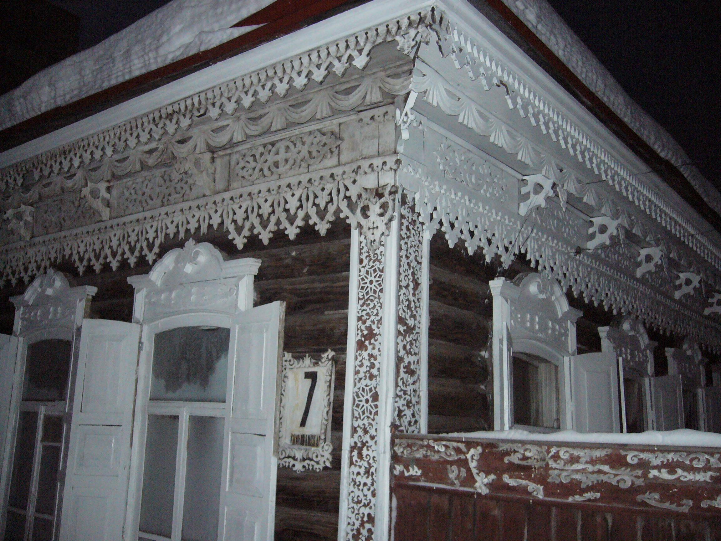 Novosibirsk picturesque traditional house